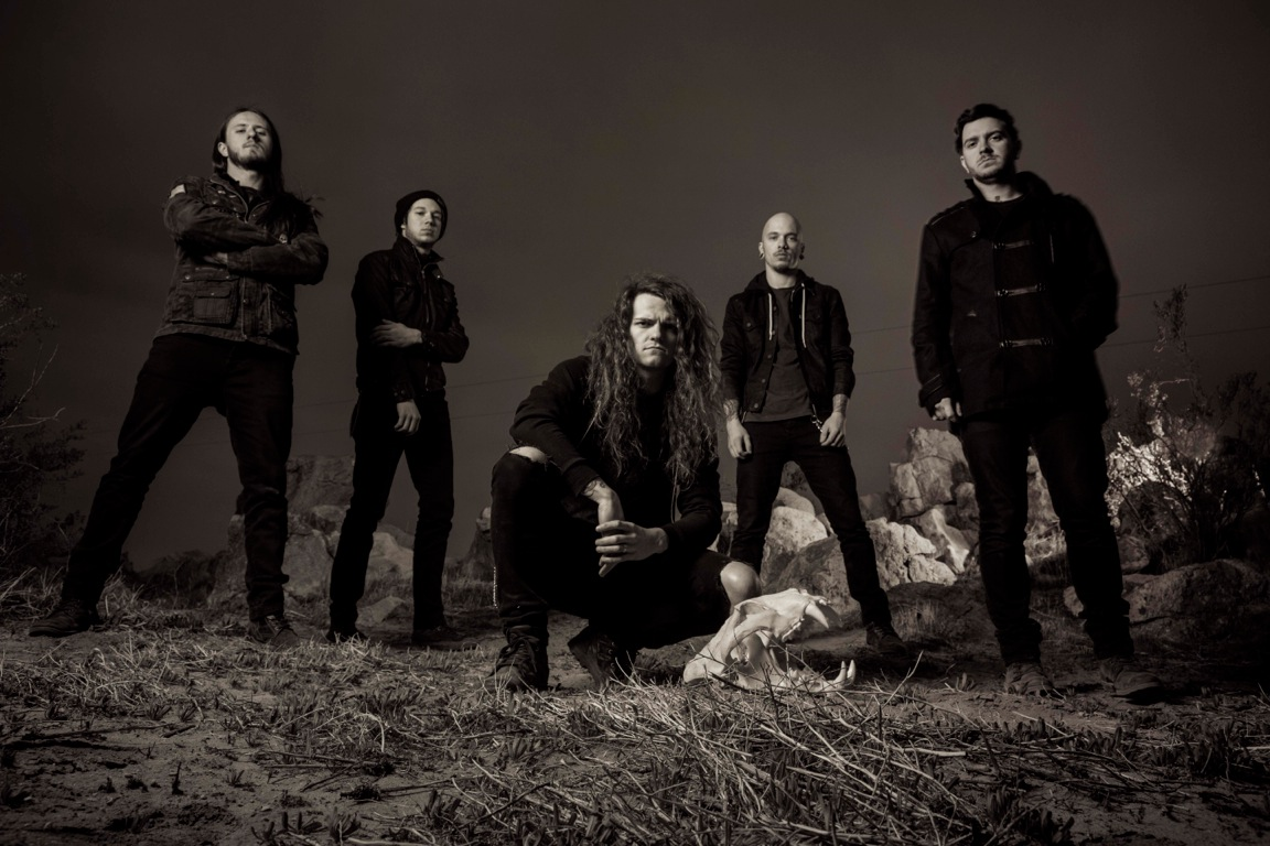 Ohio formed metal band Miss May I, taken ahead of the release of their 4th studio album Rise Of The Lion in 2014. From left to right: BJ Stead (guitar), Justin Aufdemkampe (guitar), Levi Benton (vocals), Ryan Neff (bass/vocals) and Jerod Boyd (drums). The lion's skull in the image foreground is a reference to the album title, a prominent image associated with the band Photo by Tom Barnes, assigned in full to Raw Power Management